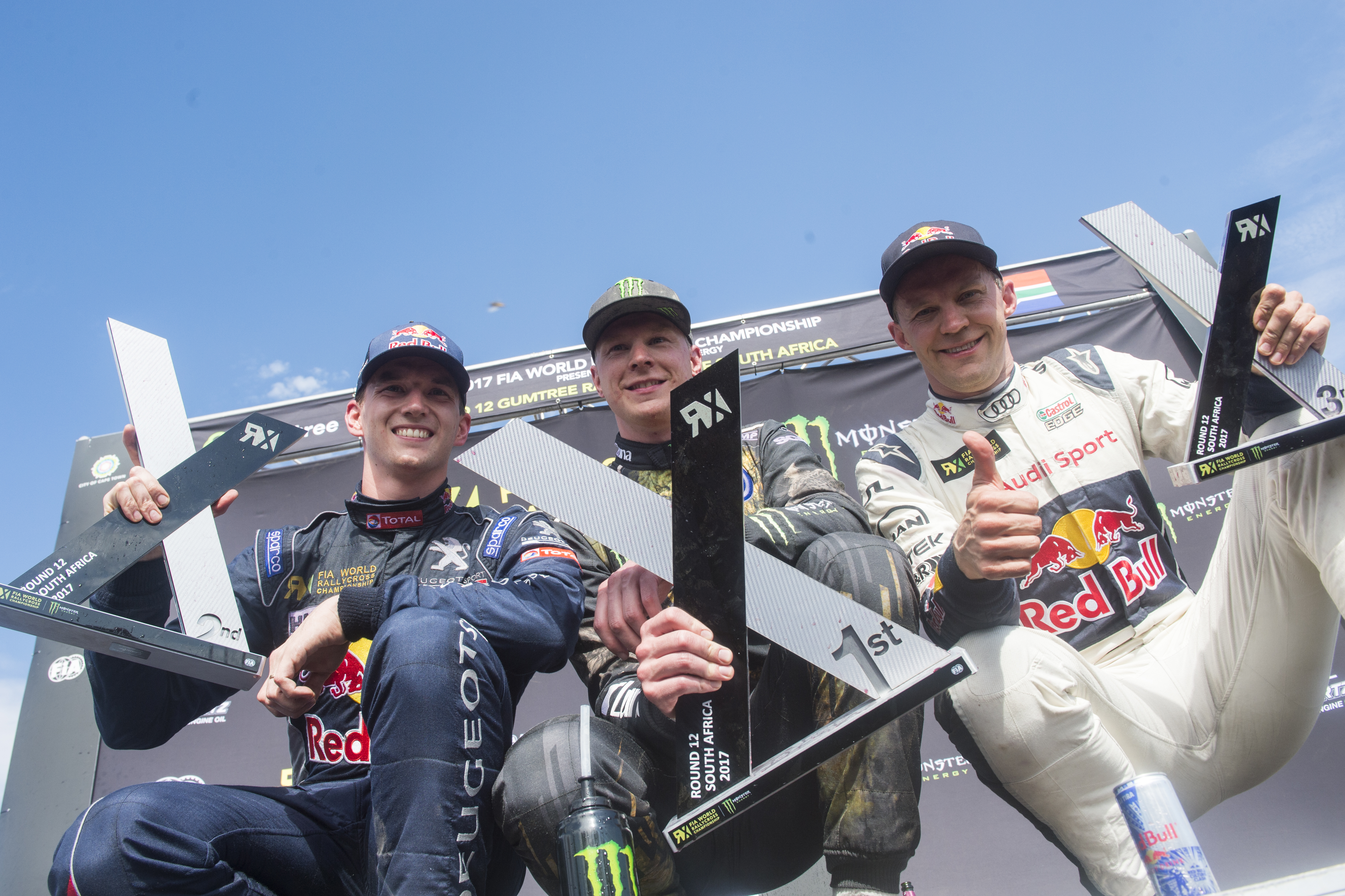 2017 FIA World Rallycross Championship // Round 12, Cape Town // Credit: EKS/Jaanus Ree